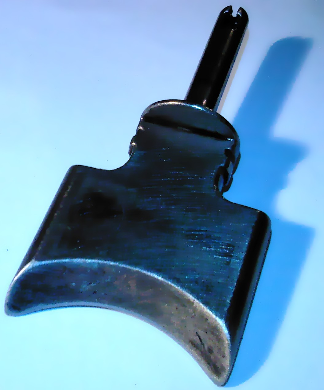 The main component of the RAVE (Rotax Adjustable Variable Exhaust) exhaust valve of the Aprilia RS 125: the 'guillotine'